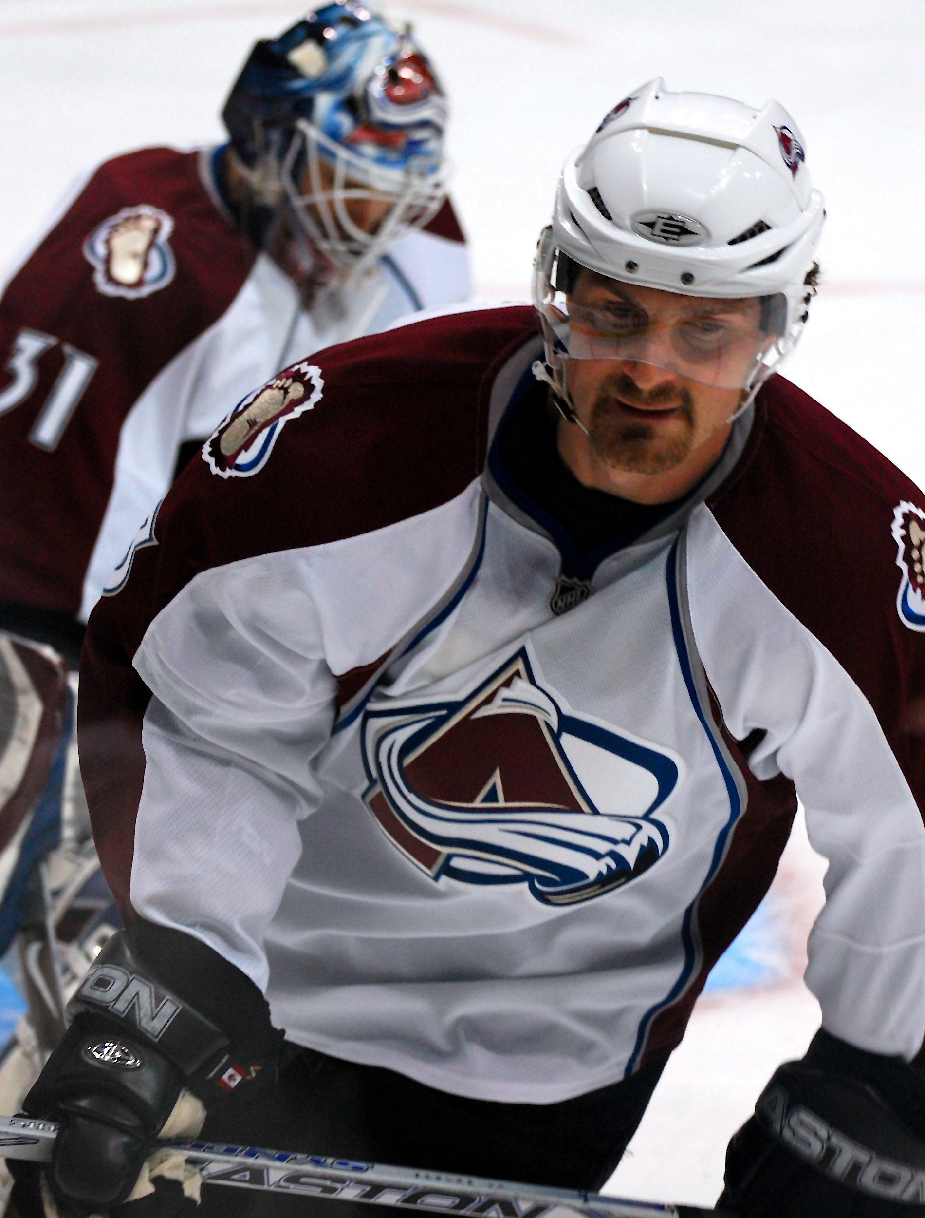 Milan Hejduk just buried one past Peter Budaj. Picture taken during the warmups of the Avalanche-Thrashers game at the Philips Arena, on March 11th, 2008.